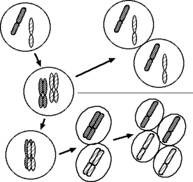 Simplified illustration created by Electric goat. Homologous chromosomes in mitosis (upper) and meiosis (bottom).